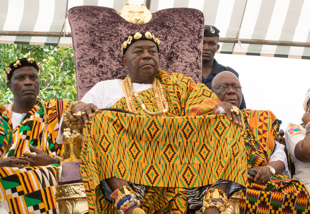 Torgbui Sri III the overlord of the people of Anlo seated in state during the 53 Hogbetsotso za of the chiefs and People of Anlo This is an image of Cultural Fashion or Adornment from Ghana